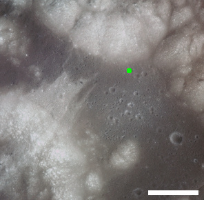 Green dot shows location of Henry , Taurus-Littrow Valley, on the moon. Scale bar at lower right is 5 km.